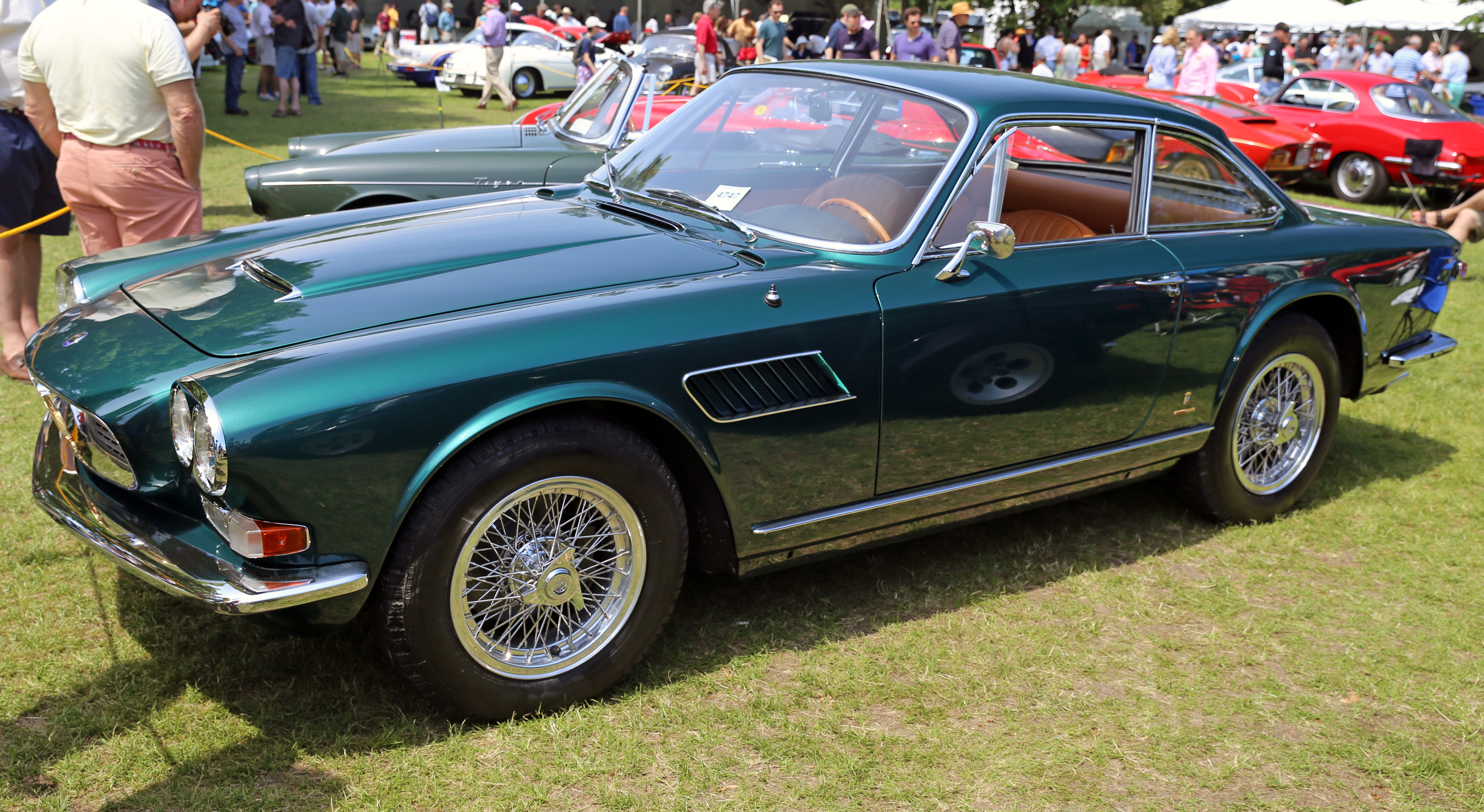 1965 Maserati Sebring Series II at the 2013 Greenwich Concours d'Elegance.